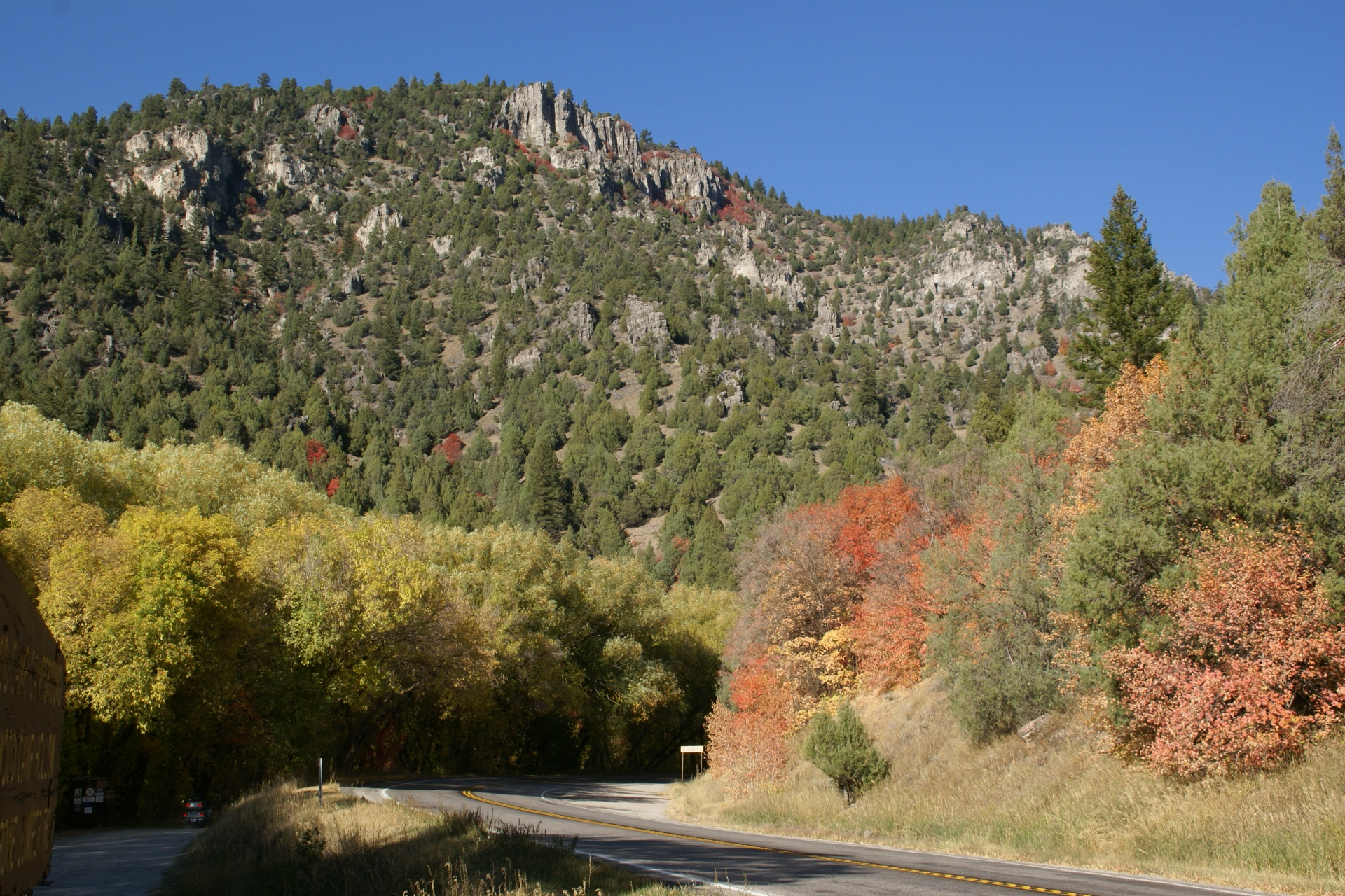 View at Chokecherry Home Summer Area on U.S. Route 89 near logan, Utah, USA